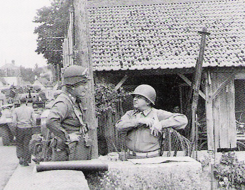 US general Walton H.Walker (right), commander of the XX Corps, with the major-general Lindsay Silvester, commander of the 7th Armoured division, in late august 1944